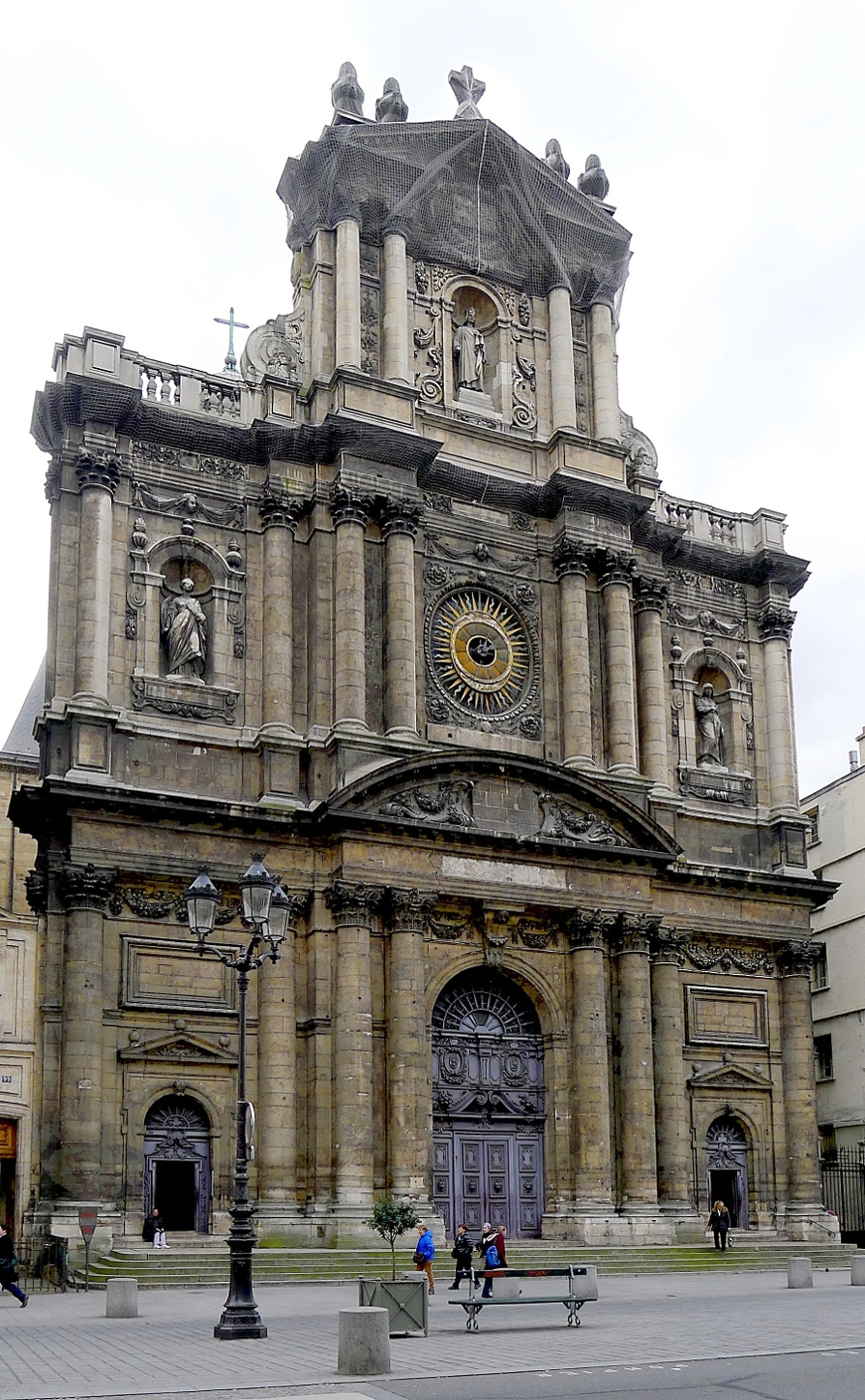 Saint-Paul-Saint-Louis church - Paris